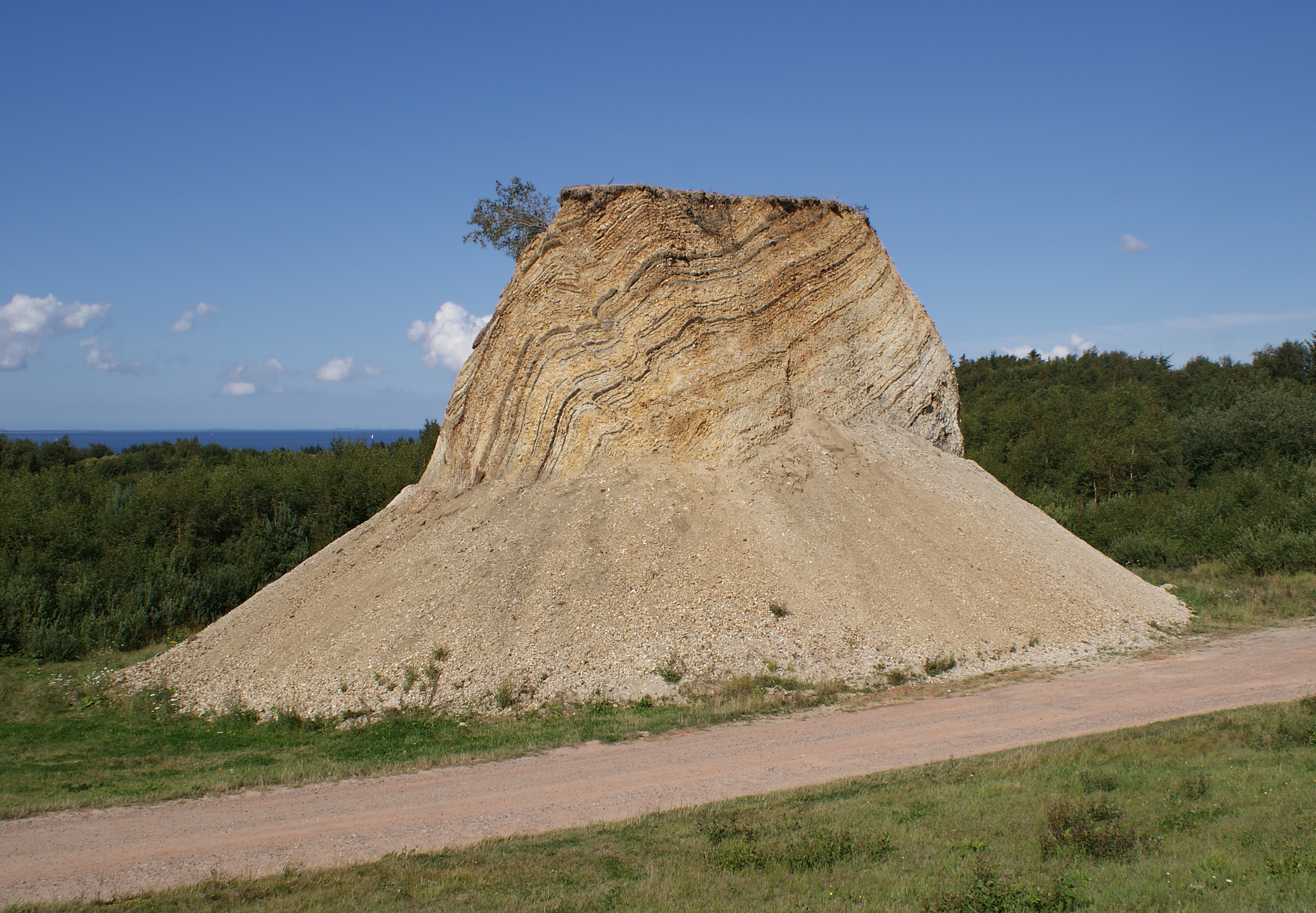 Moclay with layers of volcanic ash, Fur formation, Fur (Island), Denmark. The geological layers are approximate 54-55 million years old and have been folded by glacial tectonics.